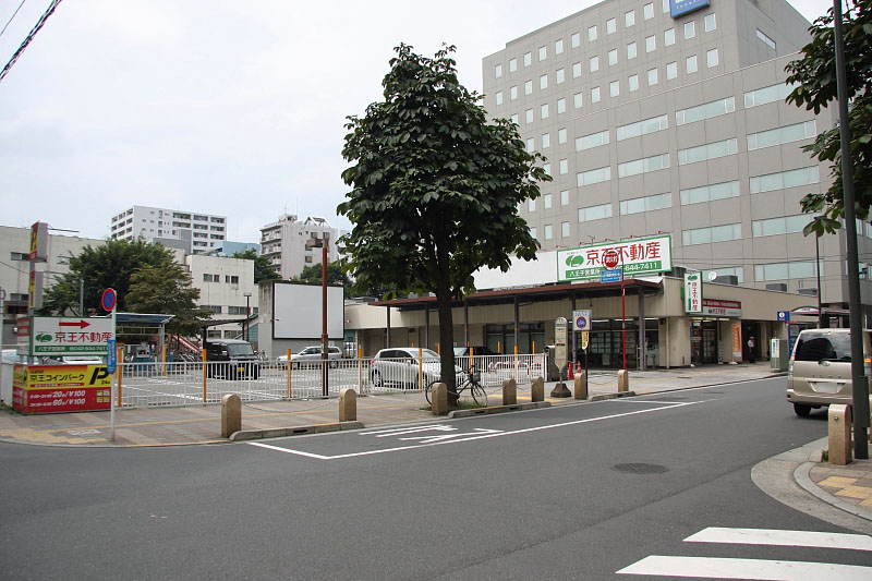 A parking lot at the site of Keio-Hachioji Highway Bus Terminal